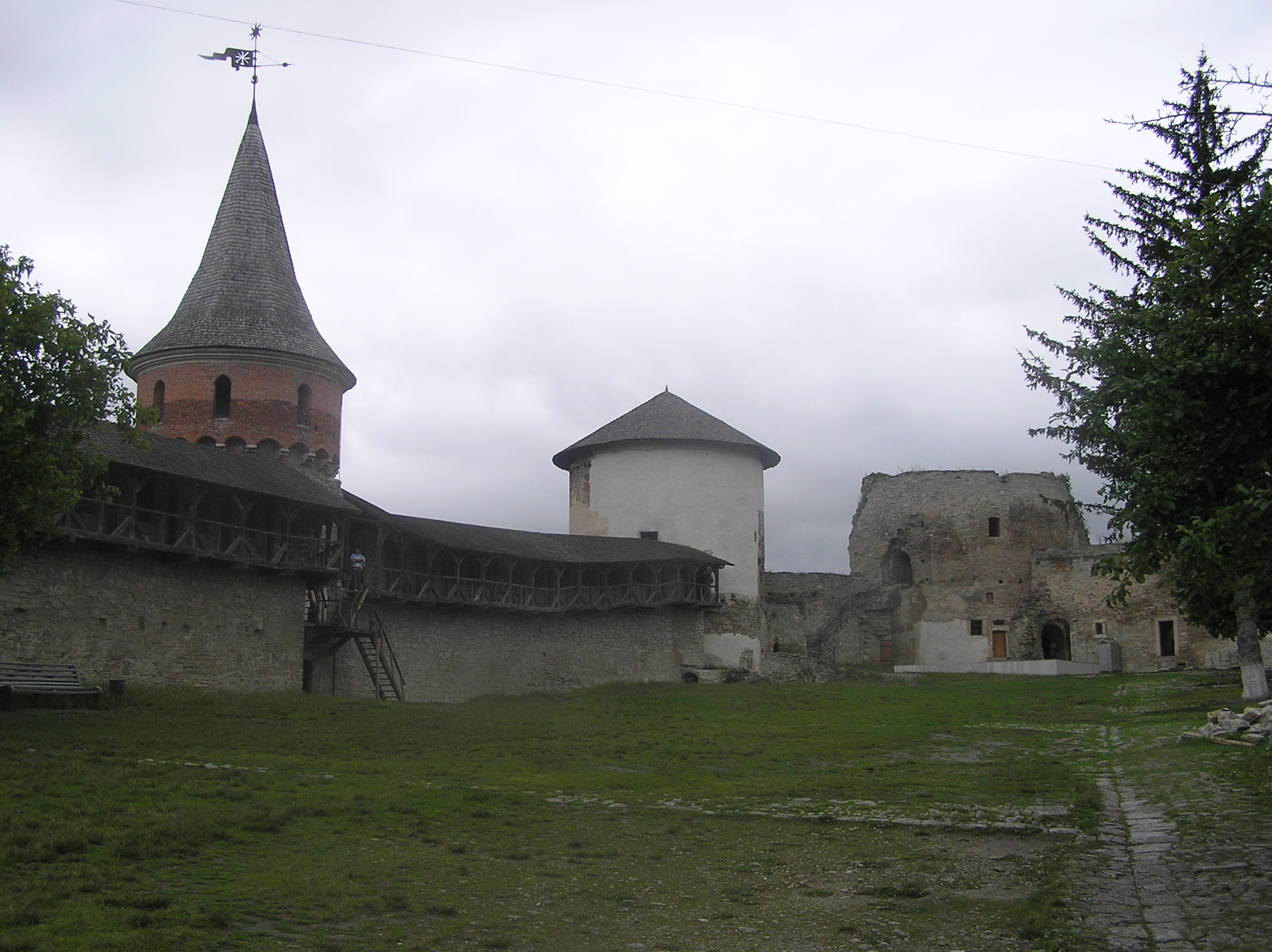 the fortress inside, upper fortress//górny zamek